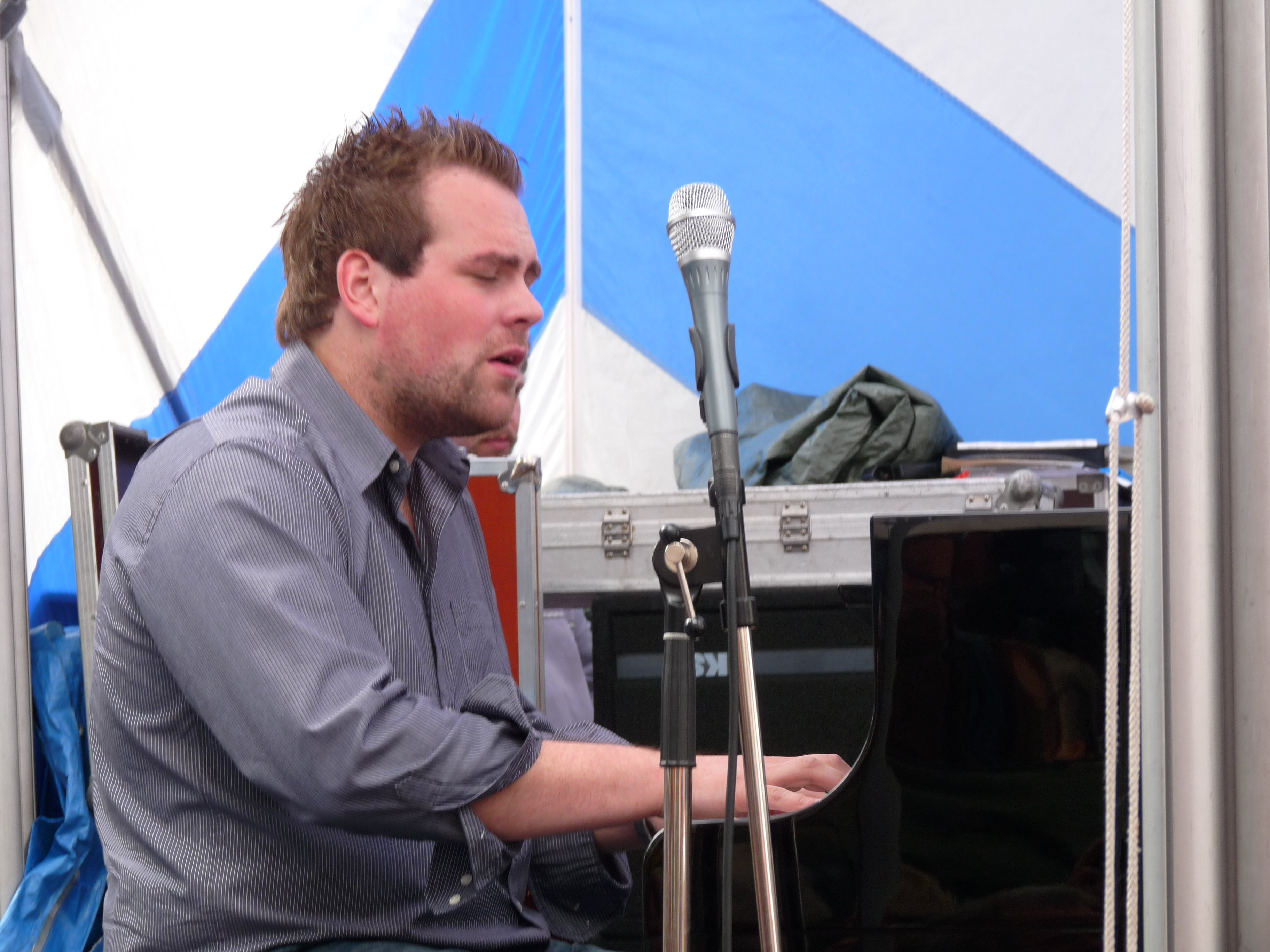 Roman Wasserfuhr at the Idstein Jazz festival 2009